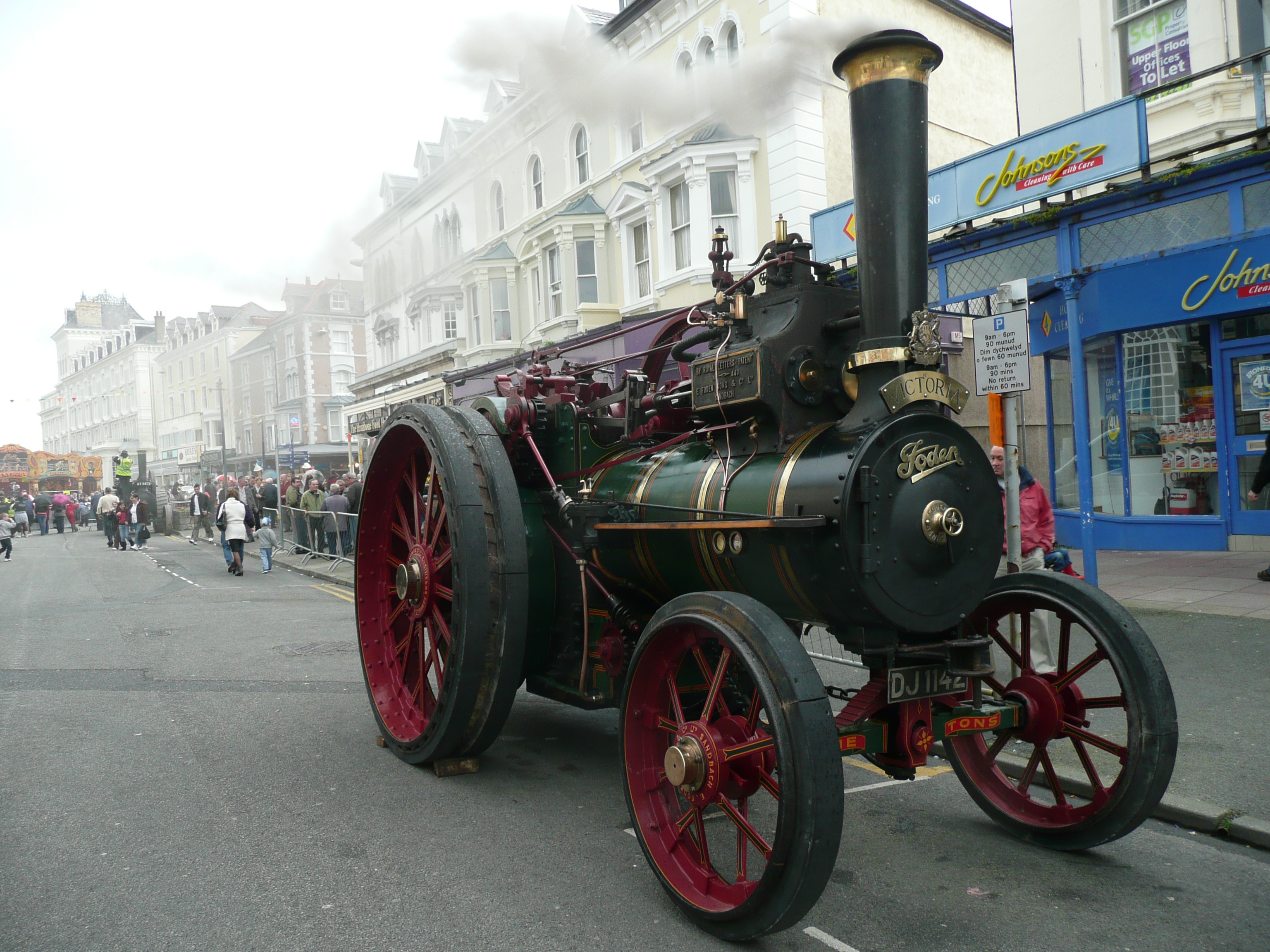 Built in 1899 by E.Foden Sons & Co Ltd at Sandbach, Cheshire. Photograph from Llandudno Transport Festival